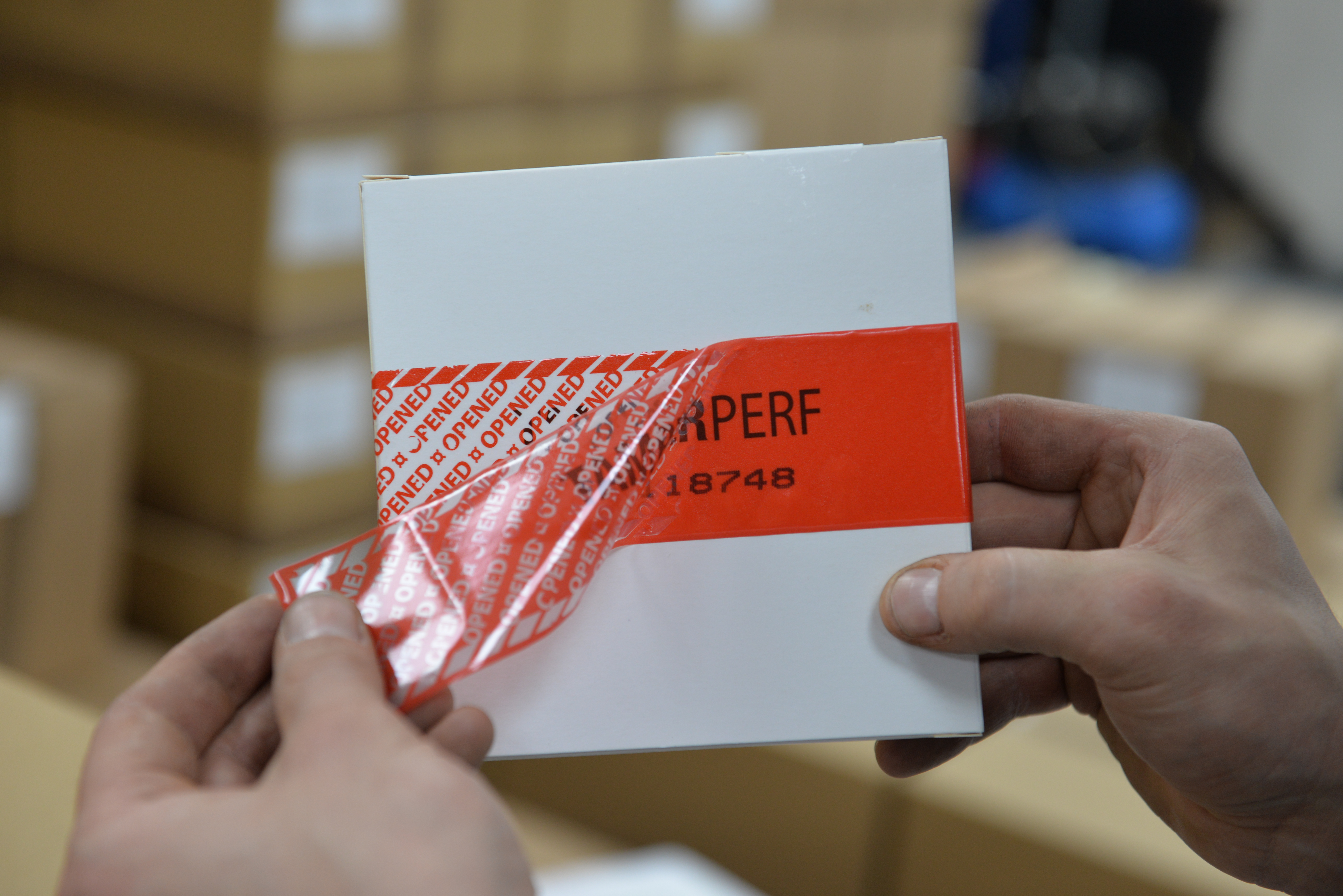 This tamper evident perforated tape leaves a permanent, visual, security message of the surface applied too. The tape cannot be reapplied and the clear message provides a clear warning of tampering, counterfeiting or theft from the product, package or parcel. The void message can be personalised and the surface have a specific message too, this can include a company logo, barcode or a sequential number to add to product traceability.